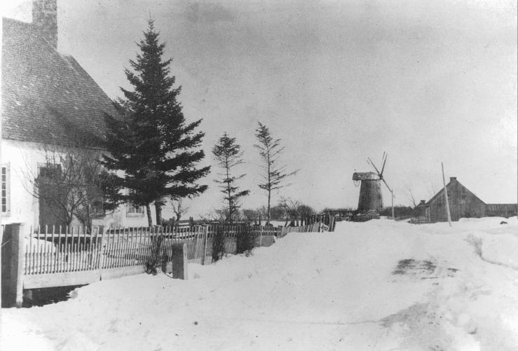 Photograph, Farmhouse and Fleming windmill, Lasalle, near Montreal, QC, about 1870, Alexander Henderson. Silver salts on paper mounted on paper - Albumen process 16.5 x 21.6 cm